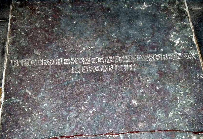 Grave of King Birger and Queen Margaret of Sweden at St. Benedict’s ChurchPlace: Ringstead, Denmark